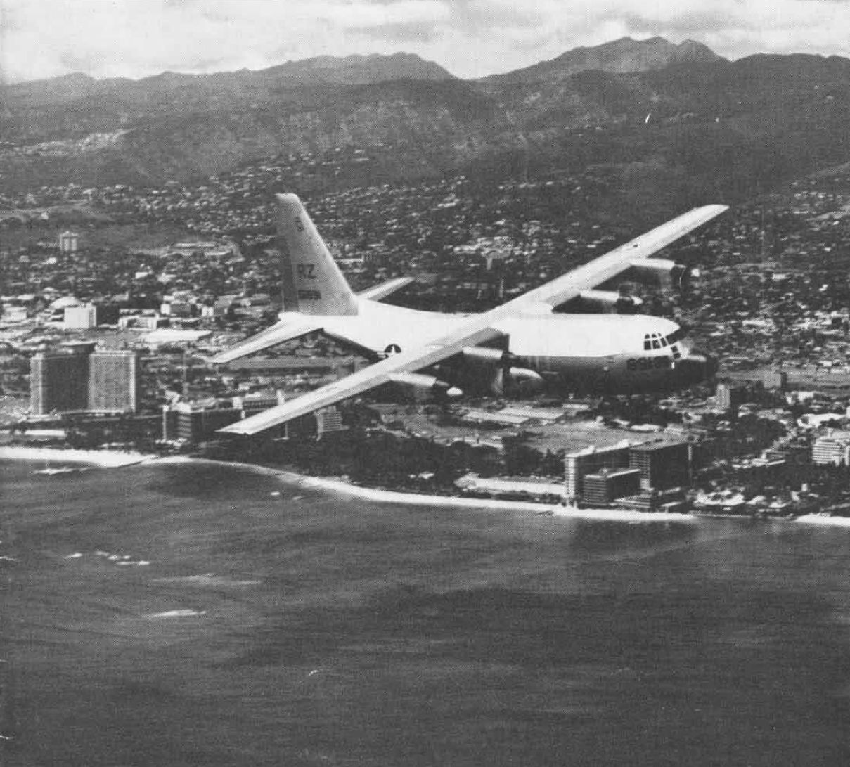 A U.S. Navy Lockheed EC-130G Hercules (BuNo 151891) from Transport Squadron 21 (VR-21) in flight off Oahu, Hawaii (USA), circa in 1964. From 26 December 1963 to 31 December 1965, two EC-130Gs formed the "TACAMO componenent" of VR-21, used to communicate with ballistic missile submarines. On 1 January 1966, the aircraft were reassigned to Airborne Early Warning Squadron 1 (VW-1) and formed Fleet Air Reconnaissance Squadron 3 "Ironmen" on 1 July 1968.